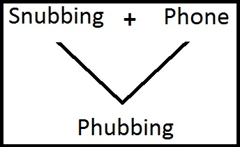 Snubbing + Phone = Phubbing